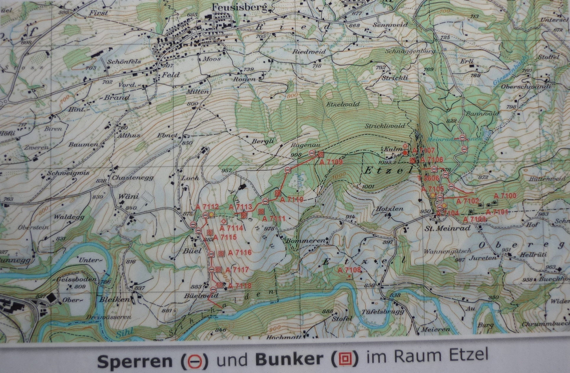 Etzel mountain fortress, Switzerland